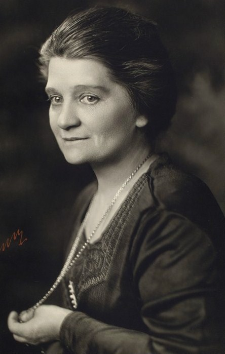 English stage & film actress Lucy Beaumont - publicity still (original image cropped : see source)